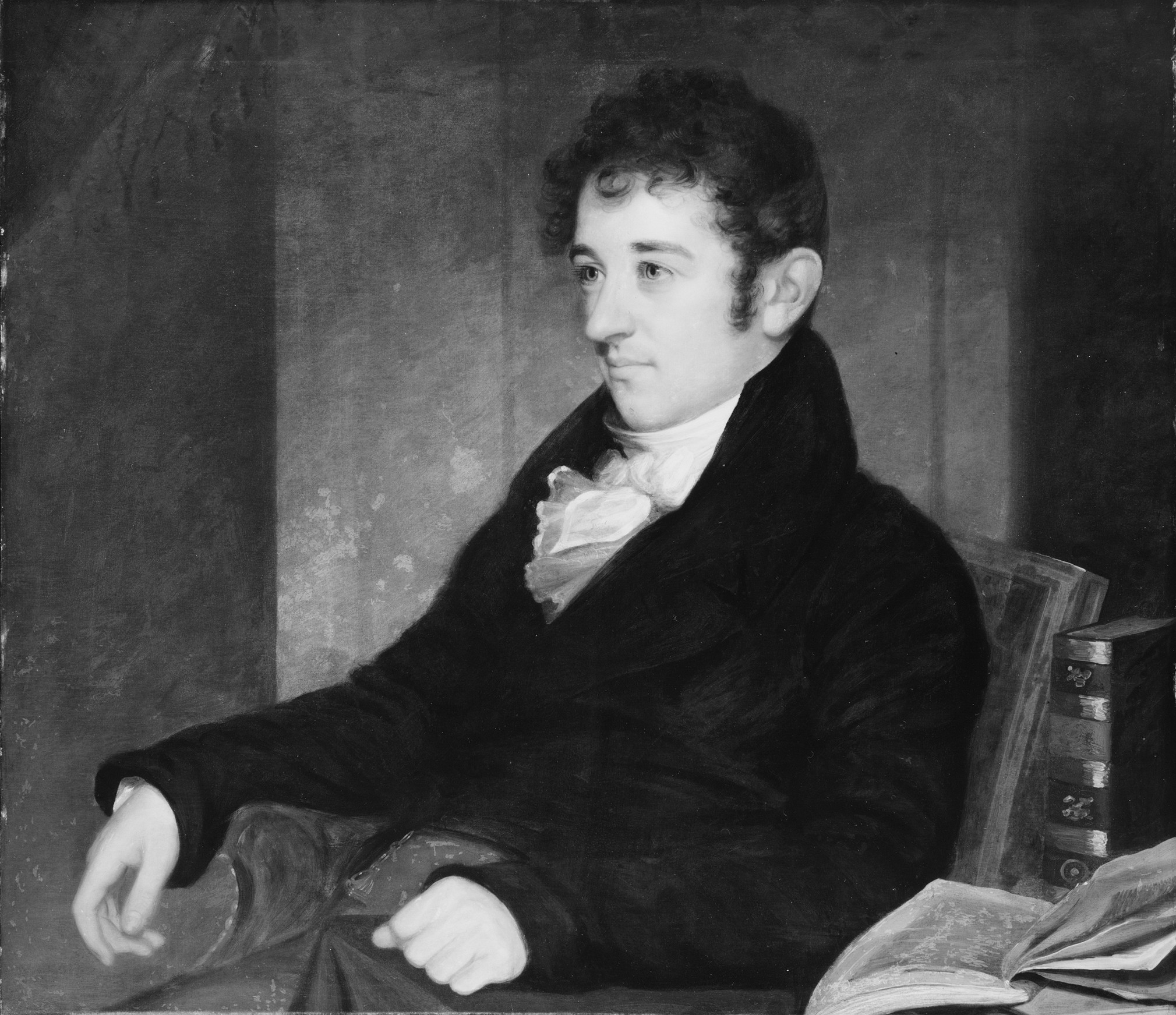 Gulian Verplanck Artist: John Wesley Jarvis (American (born England), South Shield 1780–1840 New York) Date: ca. 1811 Medium: Oil on panel Dimensions: 28 1/2 x 33 1/8 in. (72.4 x 84.1 cm) Classification: Paintings Credit Line: Gift of Nora F. Cammann and Albert Francke, 2000 A devoted and influential member of many of the leading learned organizations of his day, Gulian Verplanck (1786-1870) was a member of one of New York's most prominent families, descended from the earliest settlers of New Amsterdam. Jarvis's choice of a horizontal format for his portrait of Verplanck was highly unusual and inspired: it captures the liberal spirit of this young man of wealth, leisure, and intelligence, who allowed the painter to experiment with conventional portrait composition in order to provide greater context for the likeness.